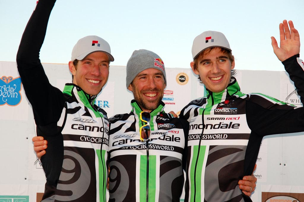 Powers - Johnson - Driscoll